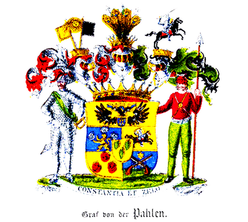 Coat of Arms of count Pahlen family